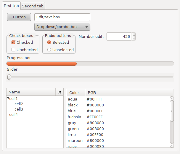 Common widgets. Rendered in Firefox 3.0b2pre with the gtk-qt theme for GTK and the Plastik theme for Qt.